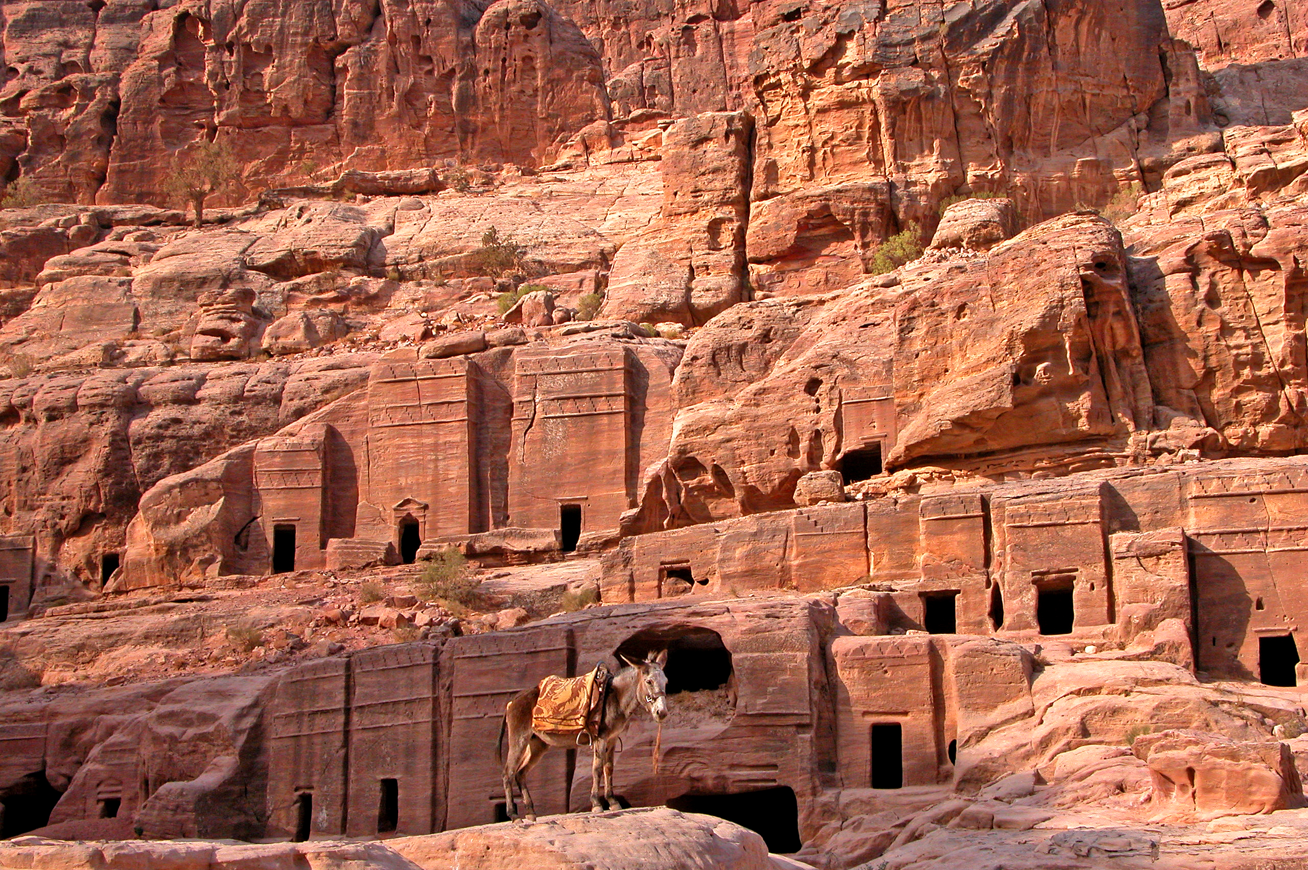 PLEASE, no multi invitations in your comments. DO NOT FEEL YOU HAVE TO COMMENT.Thanks. Finally I was off the mountain and ready to be buried in one of these tombs. I wanted to run to get out but could hardly lift my feet even to walk. I was here from 8am to 6pm and I would recommend two days for a visit. I had one day and did not want to waste time eating and drinking, I was a FOOL and it hit me hard and I am sure there are things I did not see. Petra, Jordan